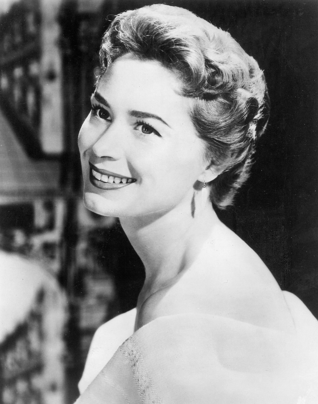 Photo of actress June Dayton.